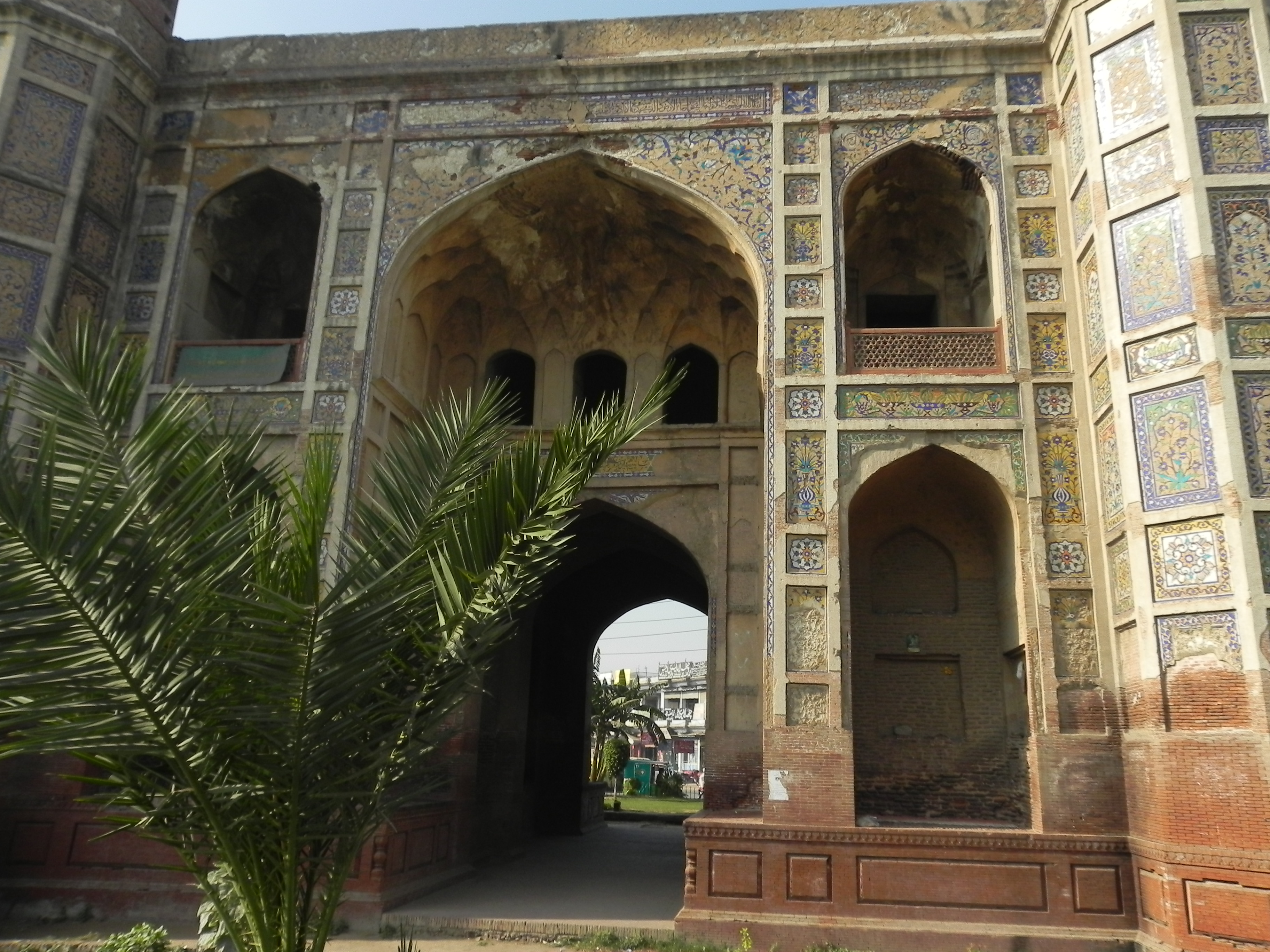 Chauburji This is a photo of a monument in Pakistan identified as the PB-46